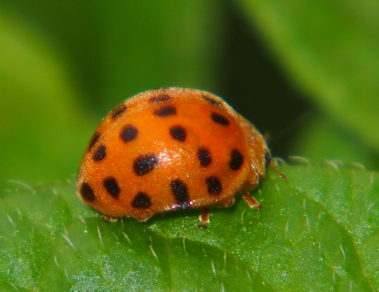 Henosepilachna vigintioctopunctata (Epilachna), 28-spotted potato ladybird, on a potato leaf